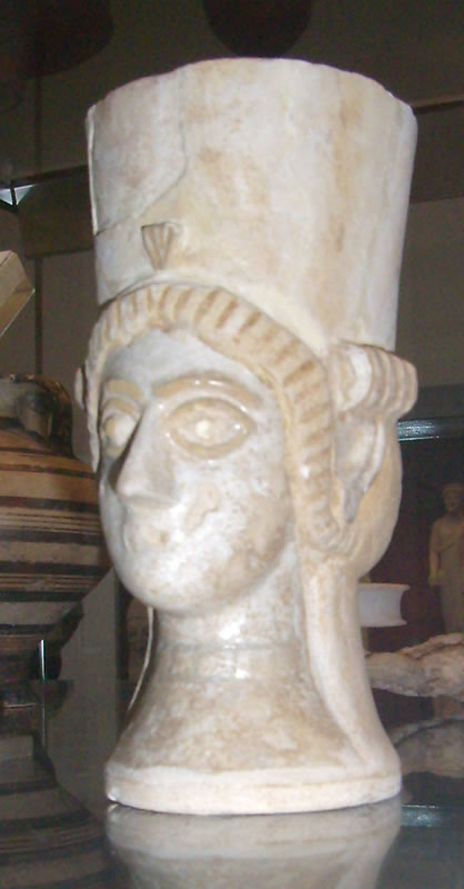 vessel in form of head, Cyrpriote or Syrian work, late Bronze age, found in tomb 19 at Enkomi, British Museum